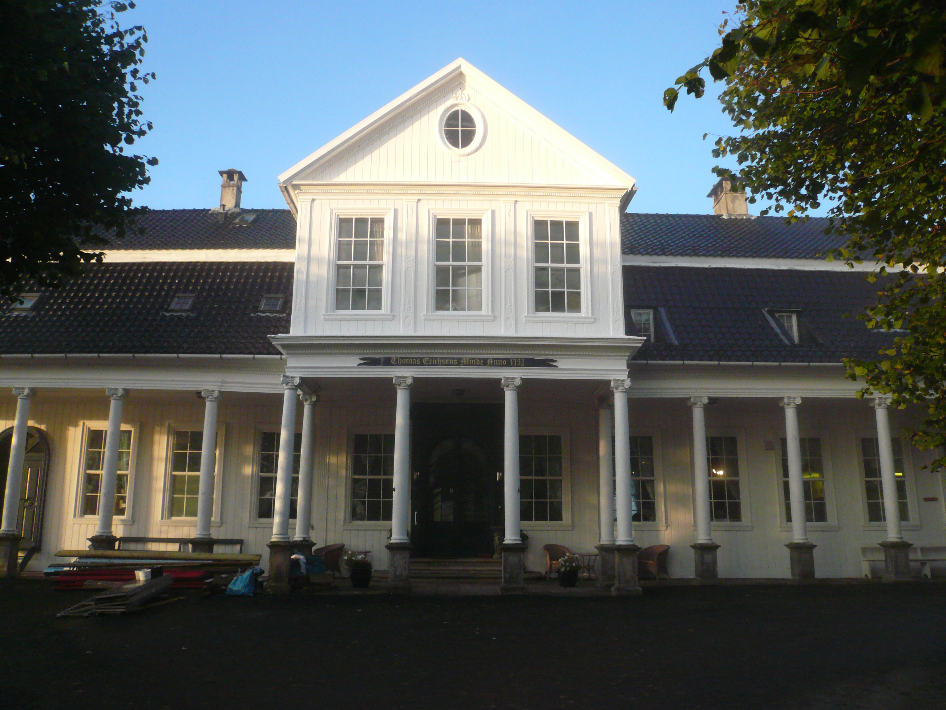 Thomas Erichsens Minde, Hop, Askøy, Norway (1793-1795).